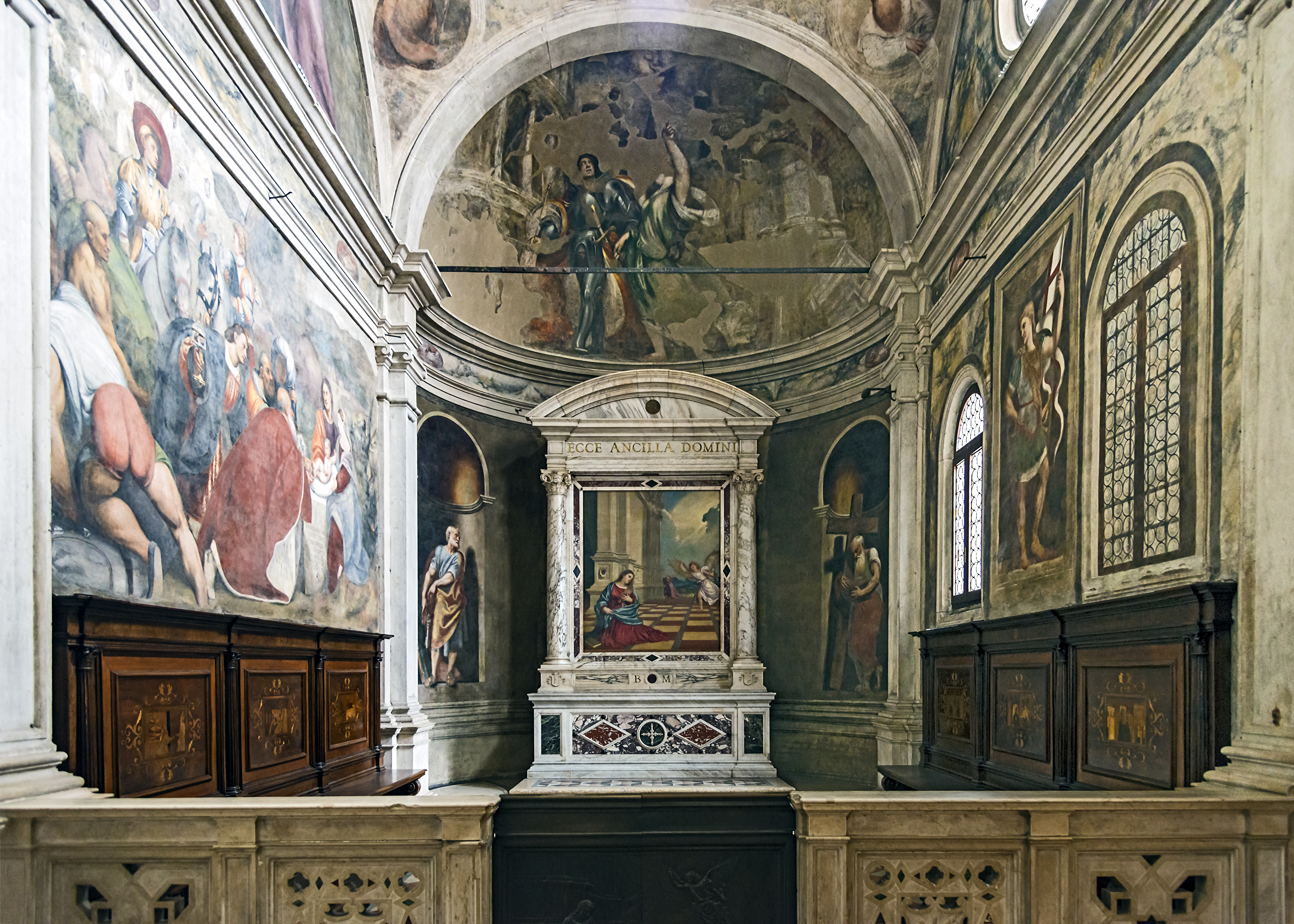 Treviso Cathedral - Annunciation chapel or Malchiostro - Fresco by Pordenone and Altarpiece by Titian (Annunciation)